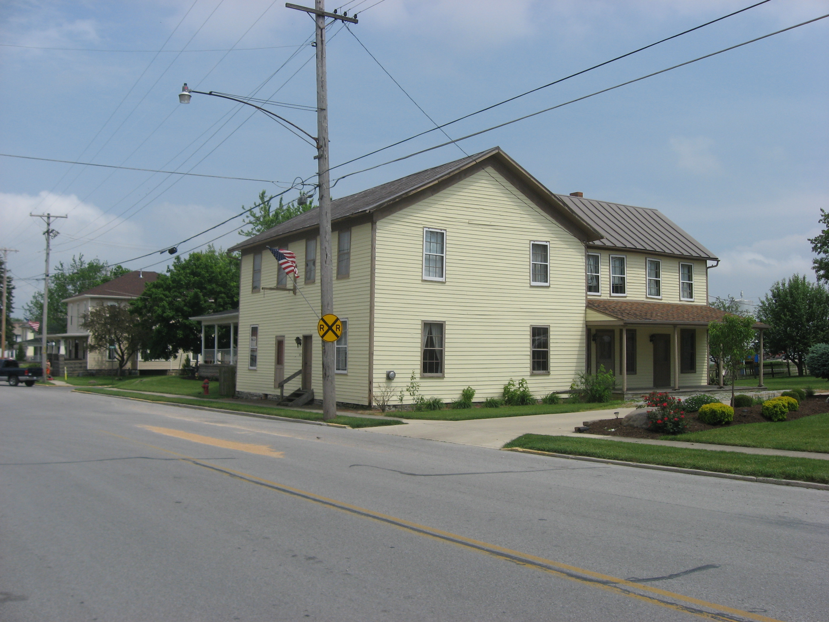 Front and northern side of the Shelby House, located at 403 W. State Street in Botkins, Ohio, United States. A former coach house built in 1864, it is listed on the National Register of Historic Places.